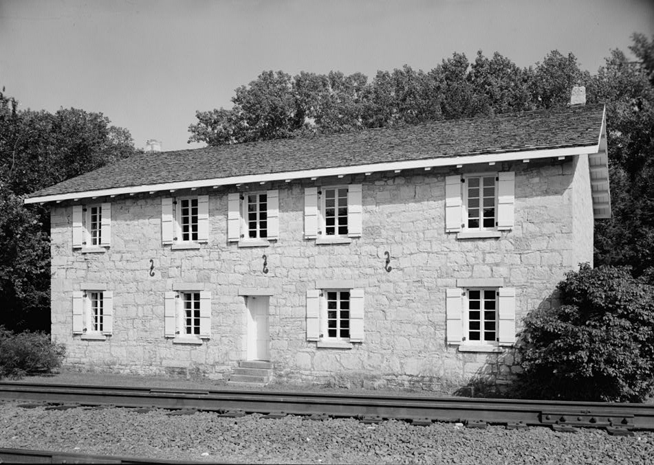 Northwestern side of the First Territorial Capitol of Kansas, located on the grounds of Fort Riley in Geary County, Kansas, United States. Built in 1855, the building was added to the National Register of Historic Places on 2 December 1970.